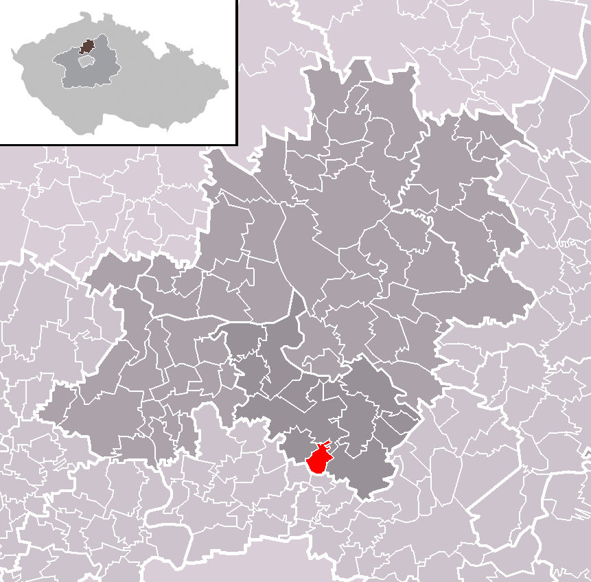 Location of Čakovičky municipality within Mělník District and administrative area of Neratovice as a Municipality with Extended Competence.